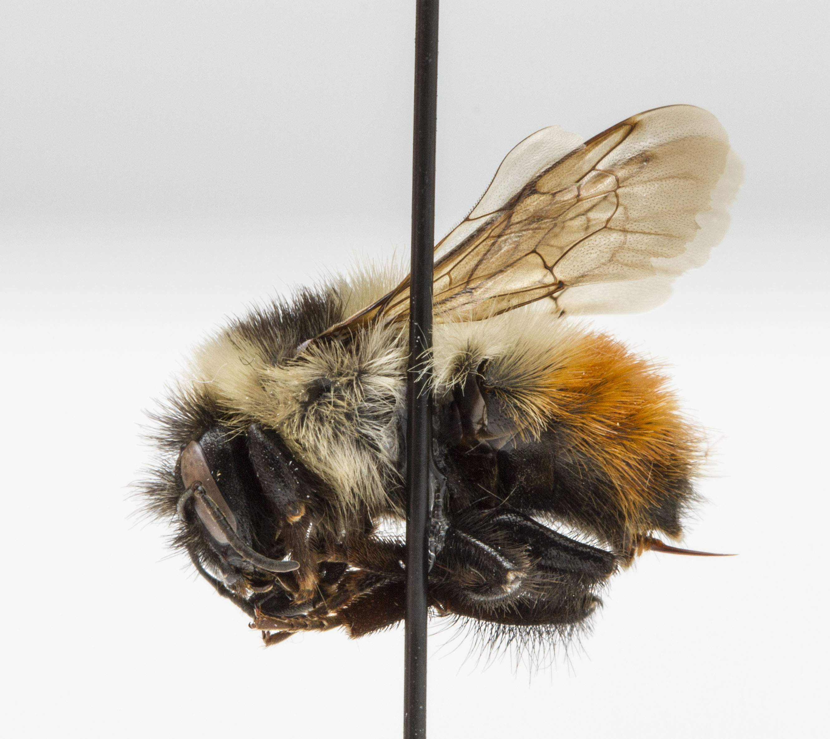 Specimen ID: 0068. Sex: Female. Collection Location: Memorial Park. Plot: MP-11. Collection Date: 25-Jun-2013. Collector: Brick M. Fevold. Bombus rufocinctus, lateral left view